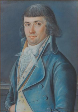 Captain Elijah Cobb (1769-1848)